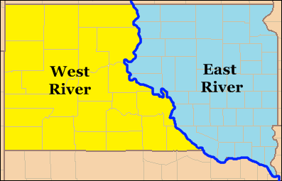 Map of the US state of South Dakota, highlighting the regions known as "East River" and "West River". The regions are divided by the Missouri River, depicted as a dark blue line down the center of the map.